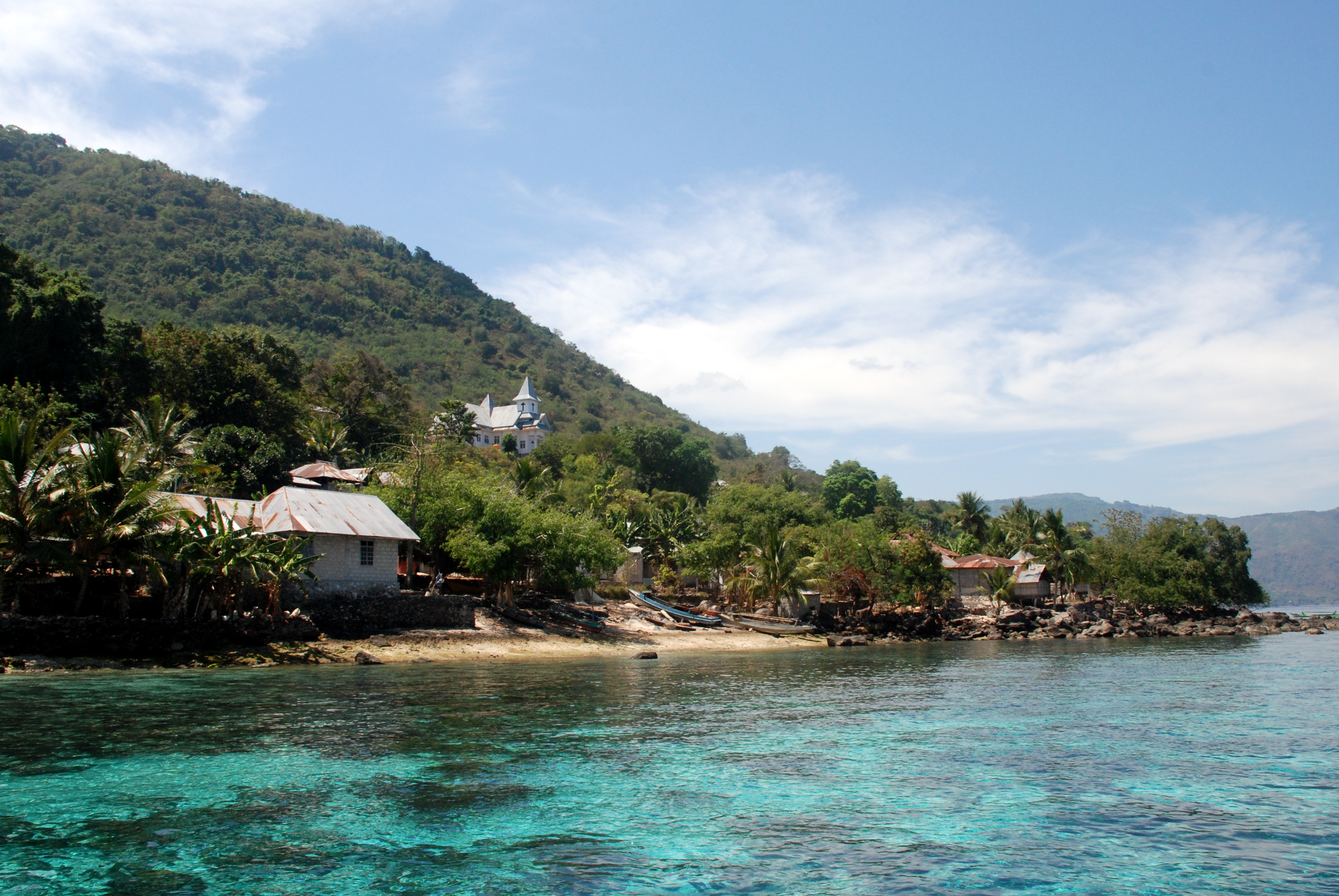 A Church and Clear Sea Near Ternate Island Alor